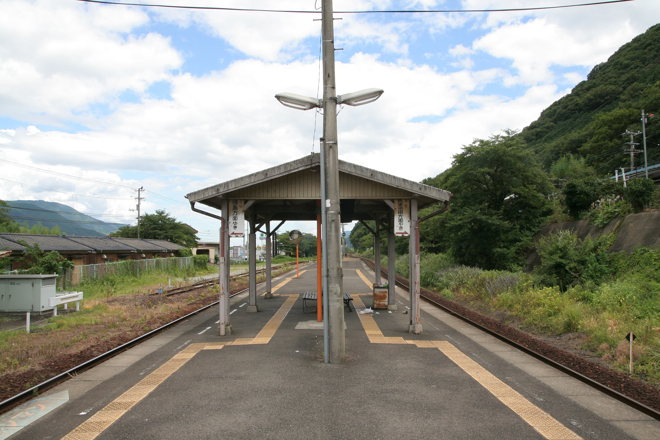 Shikoku Railway Tokushima Line eguchi Station enclosure